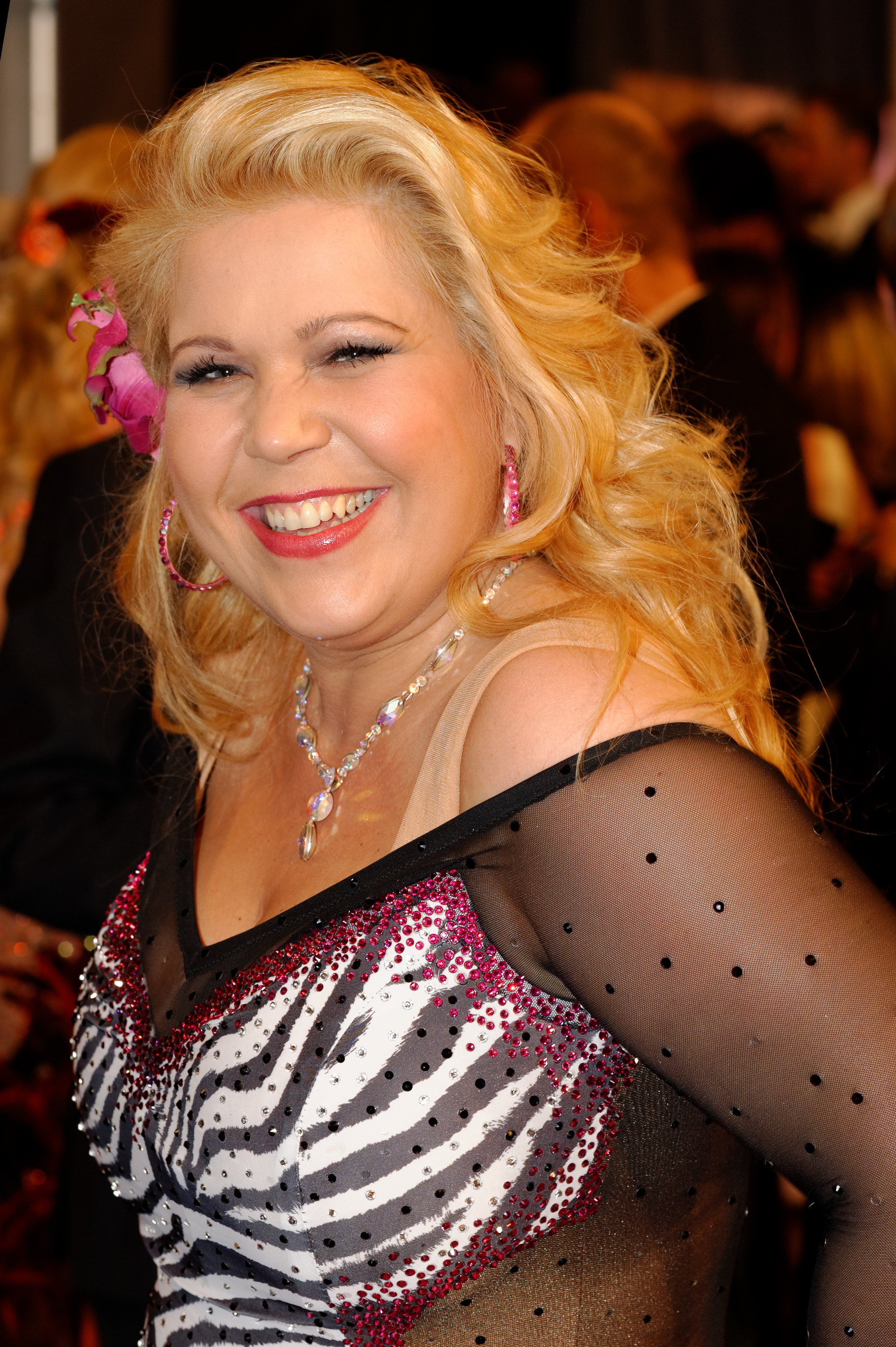 "Dancing Stars" am 5. April 2013 The making of this document was supported by Wikimedia Austria. Susanna Hirschler